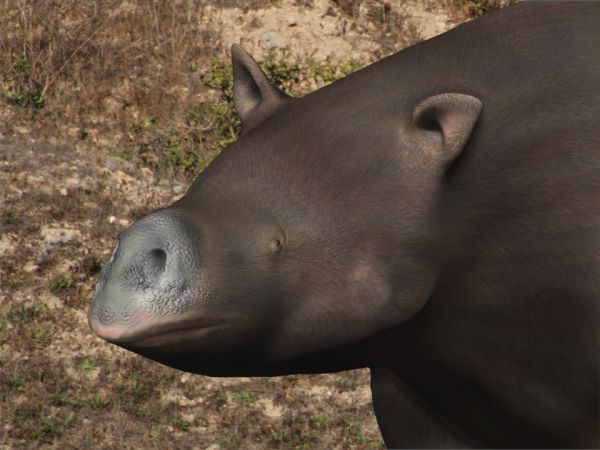 Euryzygoma dunense, early Pliocene of Australia. Digital.